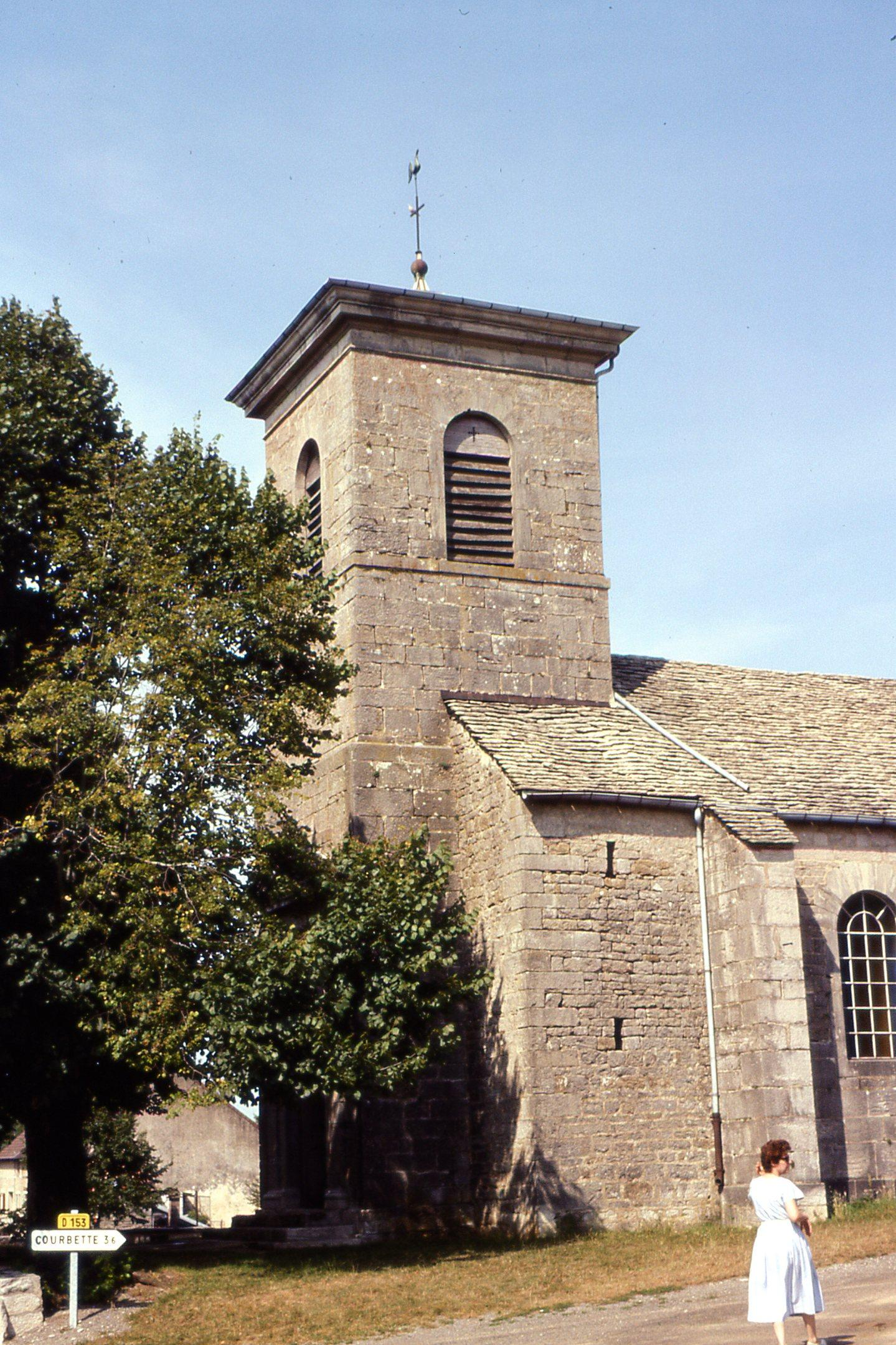 Bornay's church (19th century )